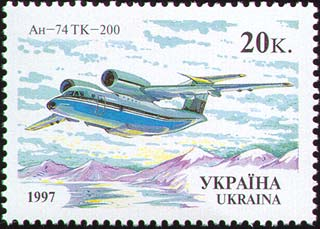 Stamp of Ukraine